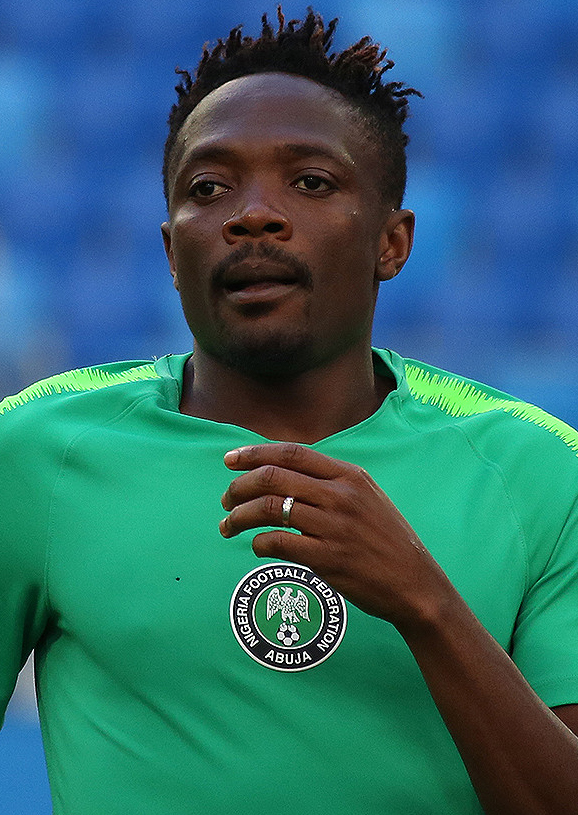 Nigerian footballer Ahmed Musa on 25 June 2018, during a training session at the 2018 FIFA World Cup.